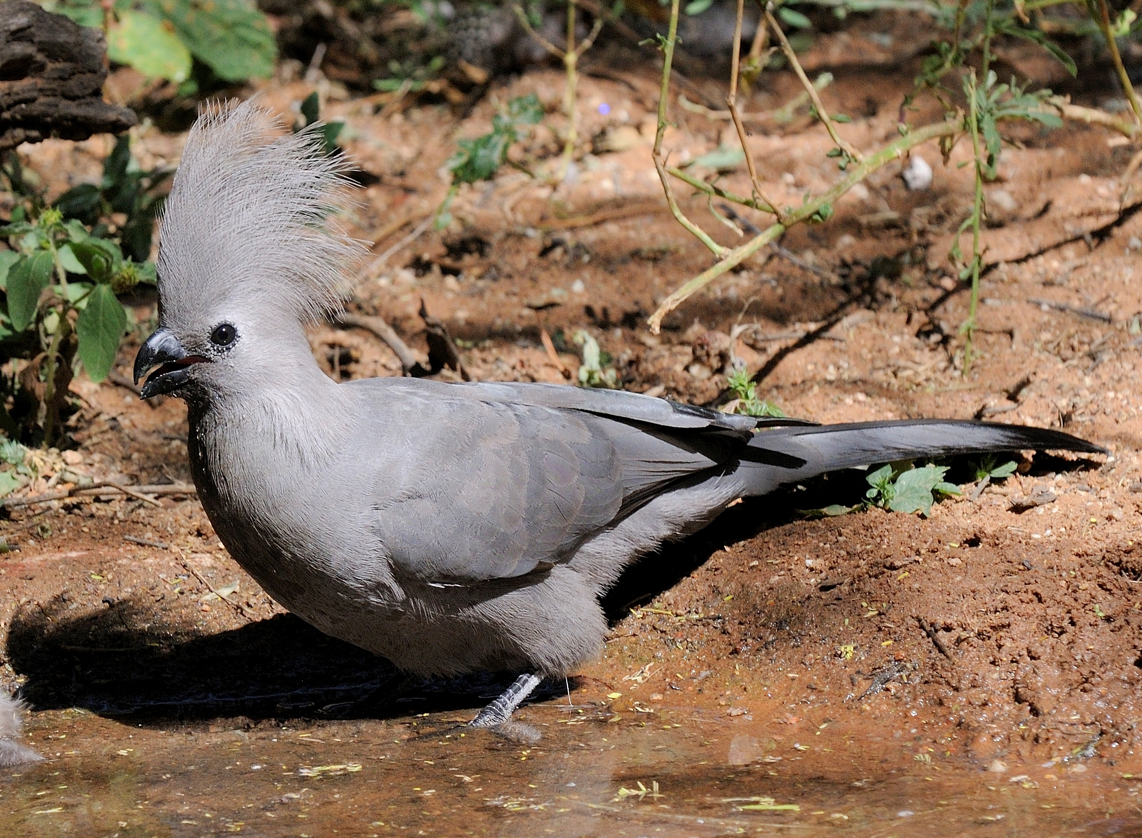 Grey go-away-bird at Okonjima in Namibia